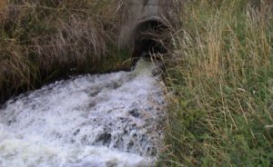 Mt Grand water treatment plant of Dunedin City Council overflows clean but untreated water originally from Deep Stream into Frasers Creek near Dalziel Rd, Brockville, Dunedin.